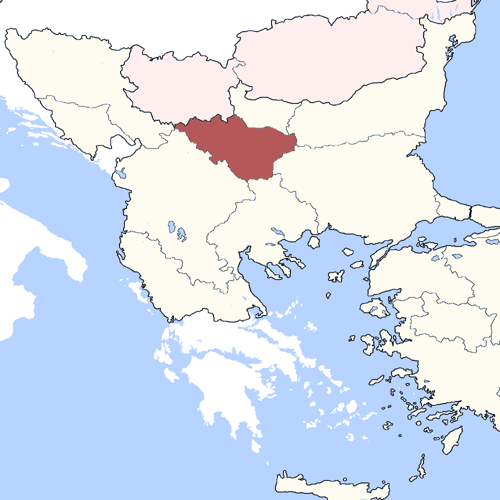 Nis Eyalet in 1850s. Tributary states of the Ottoman Empire are shown in pink. According to the information of this map: [1]